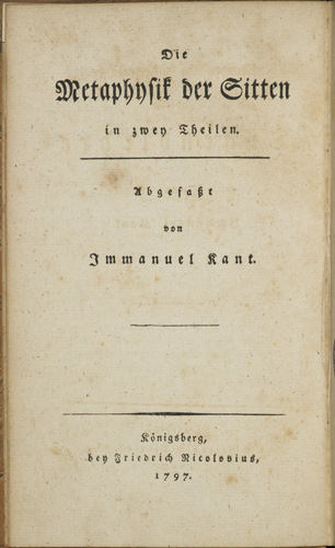 Front cover of The Metaphysics of Morals (German edition)